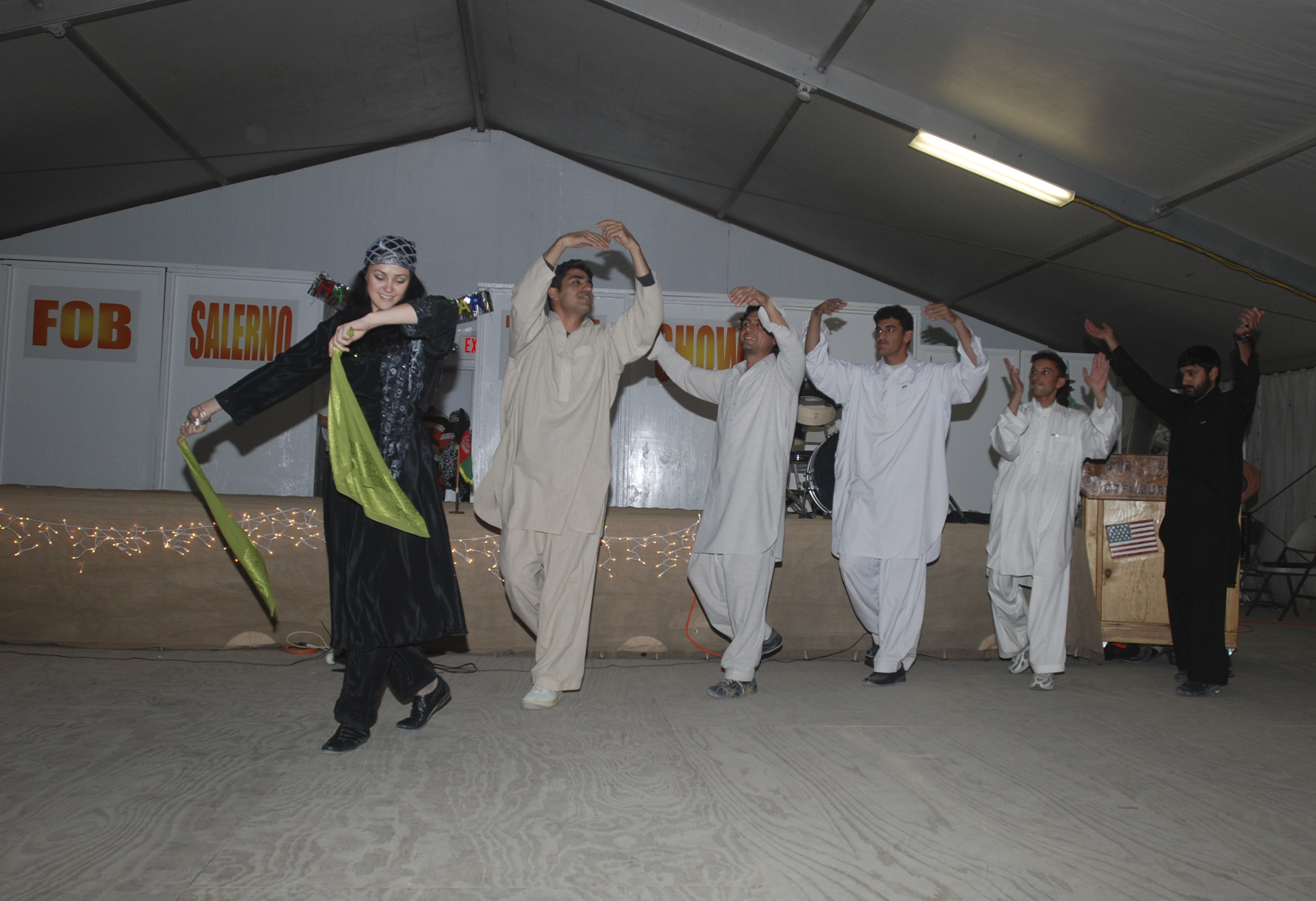 A group of local Afghan citizens perform a traditional dance, called attan, at the New Year's Eve Talent Show held at Forward Operating Base Salerno, Khowst province, Dec. 31, 2008.